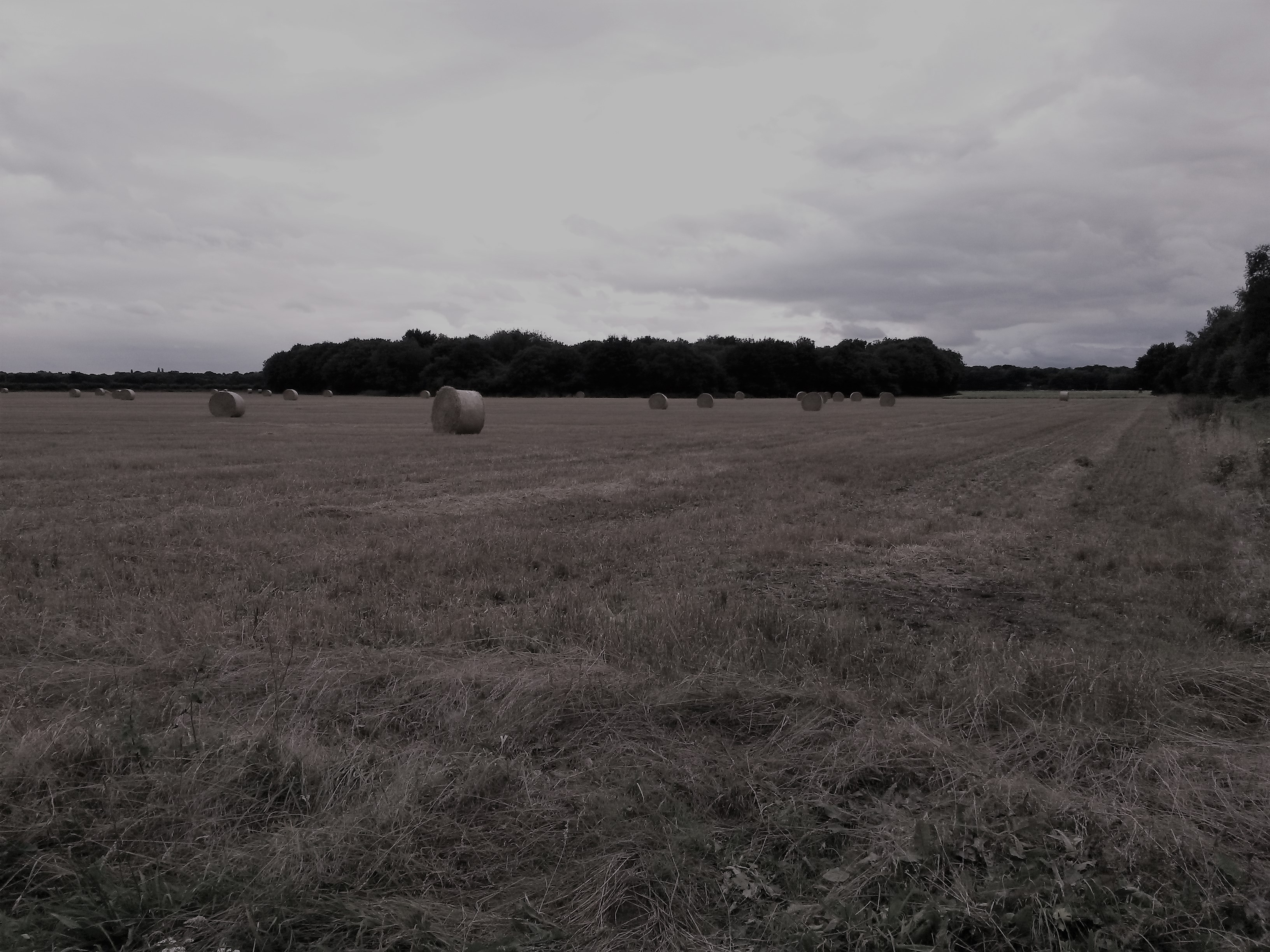 Skellingthorpe Duck Decoy, as seen from the Lincoln bypass.